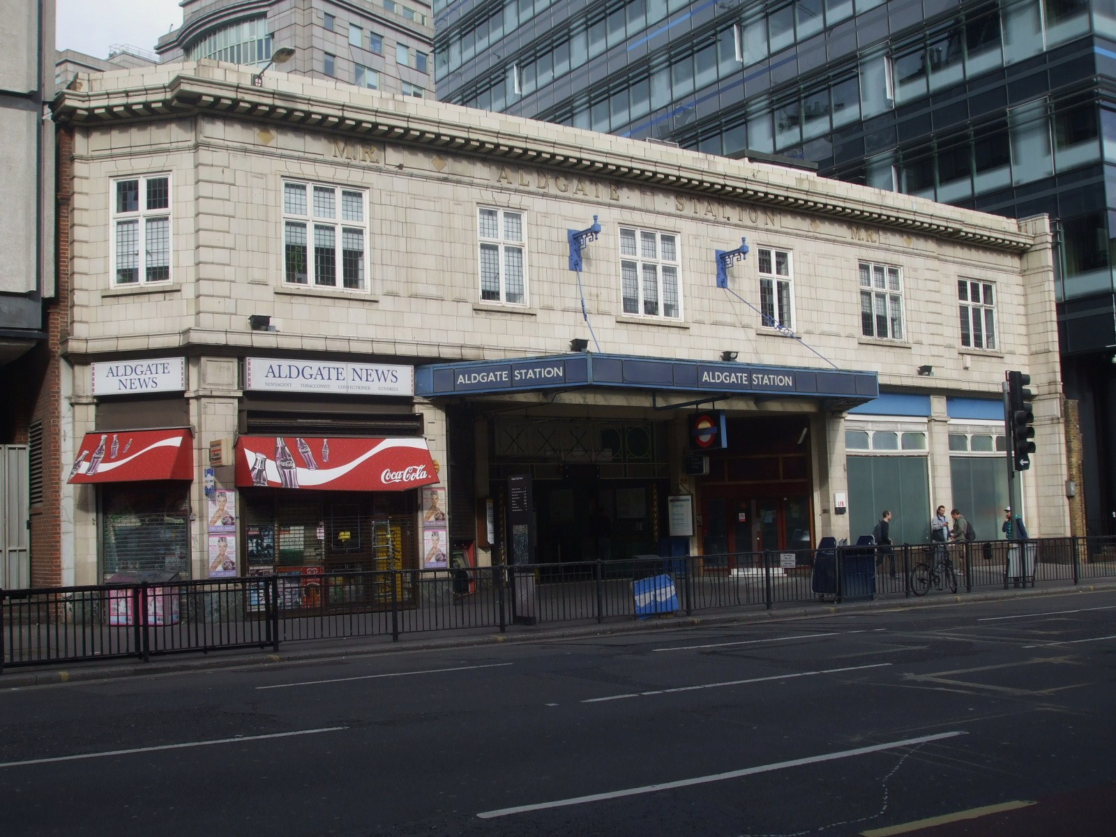 Aldgate station building